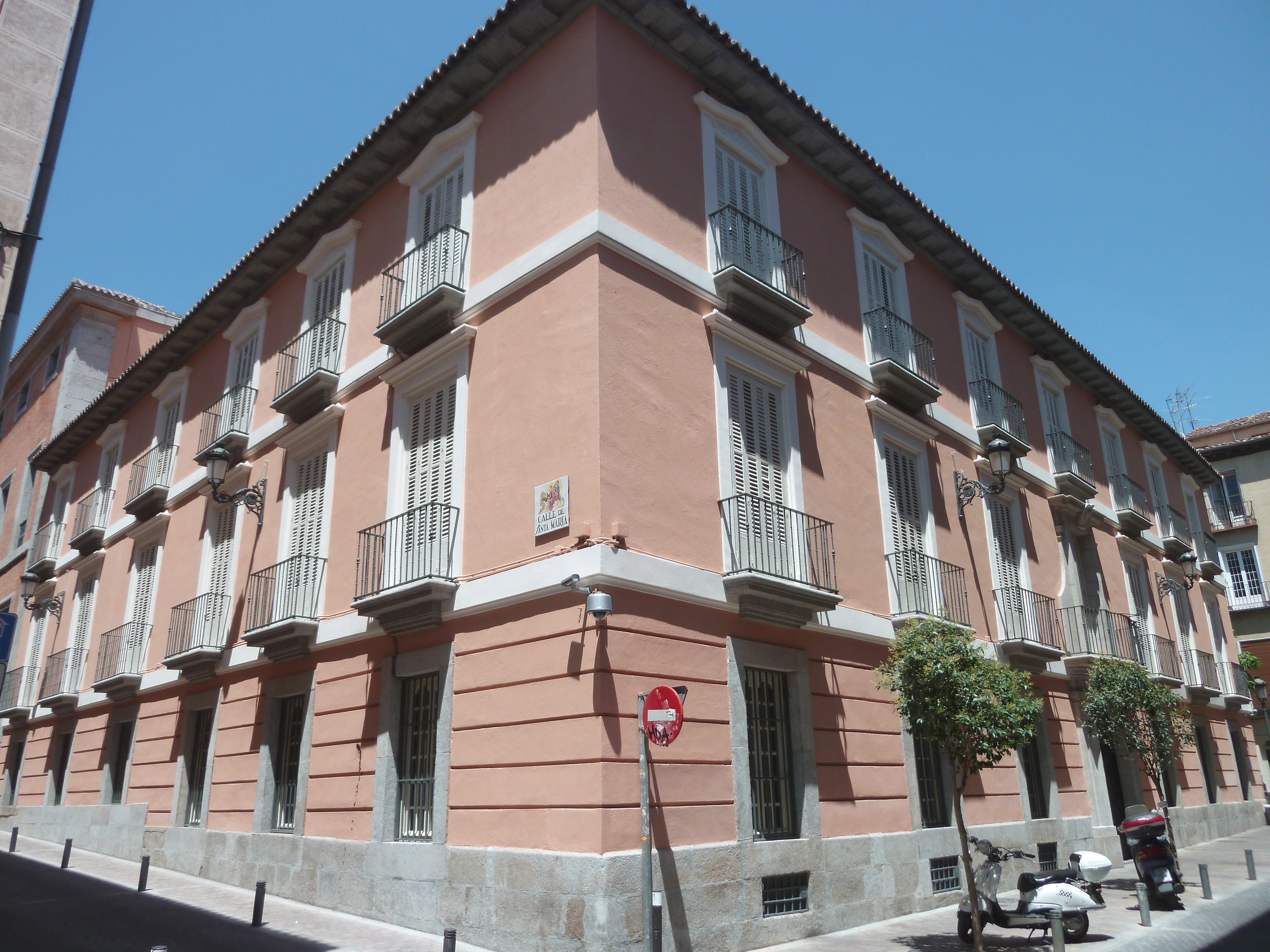 View of the Palace of the Marquis of Molins in Madrid (Spain) from the south-east angle.